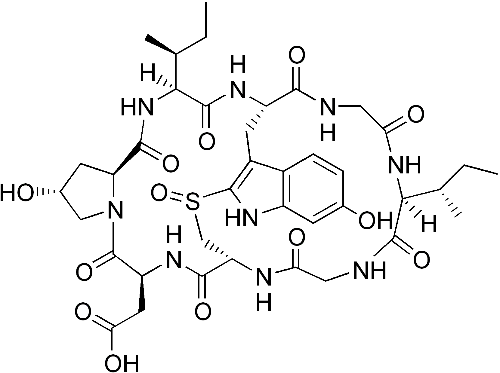 chemical structure of the amatoxin amanullinic acid